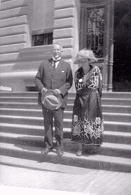 Beatrice Ensor and Professor Carl Jung at Montreux Switzerland in 1923 for the Second International N.E.F. Conference Source Family photograph inherited by uploader Jeremy Ensor. Photographer unknown, uploader believes that Beatrice Ensor owned the copyright. Picture taken in 1923.